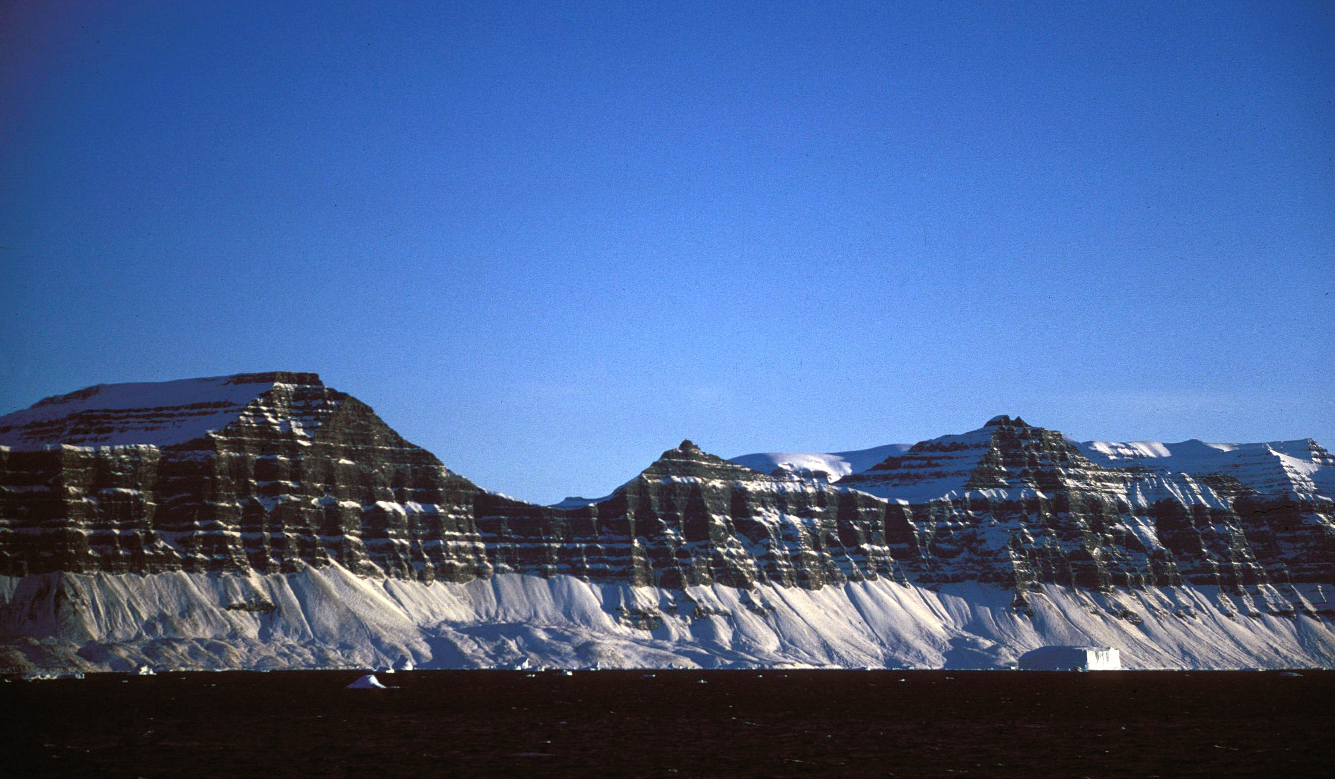 Plateau basalt along the southern coast of Scoresby Sund, East Greenland. The basalts result from the plate tectonic opening of the North Atlantic.